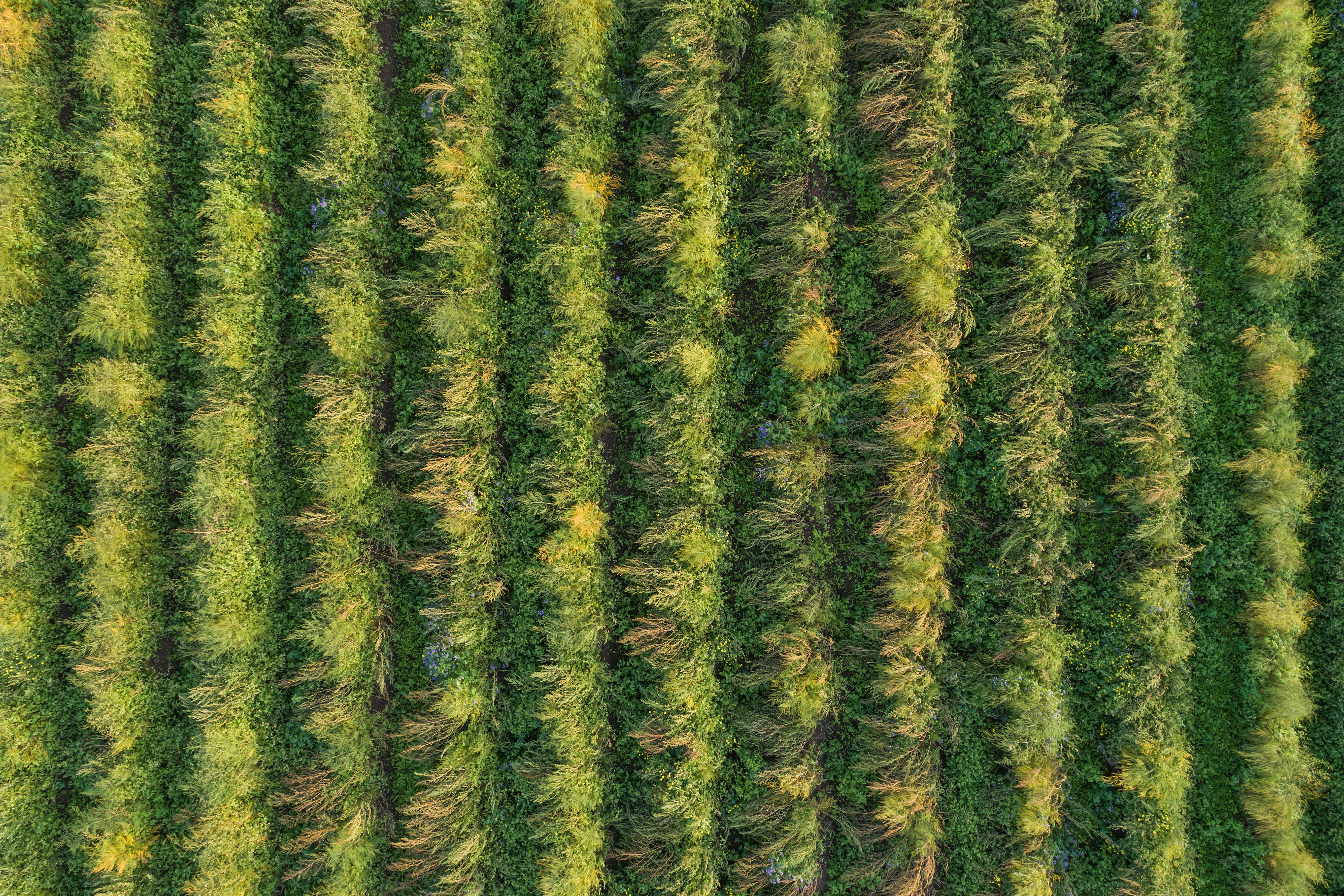 Aerial photo of a field in Frechen, Rhein-Erft-Kreis (Germany)